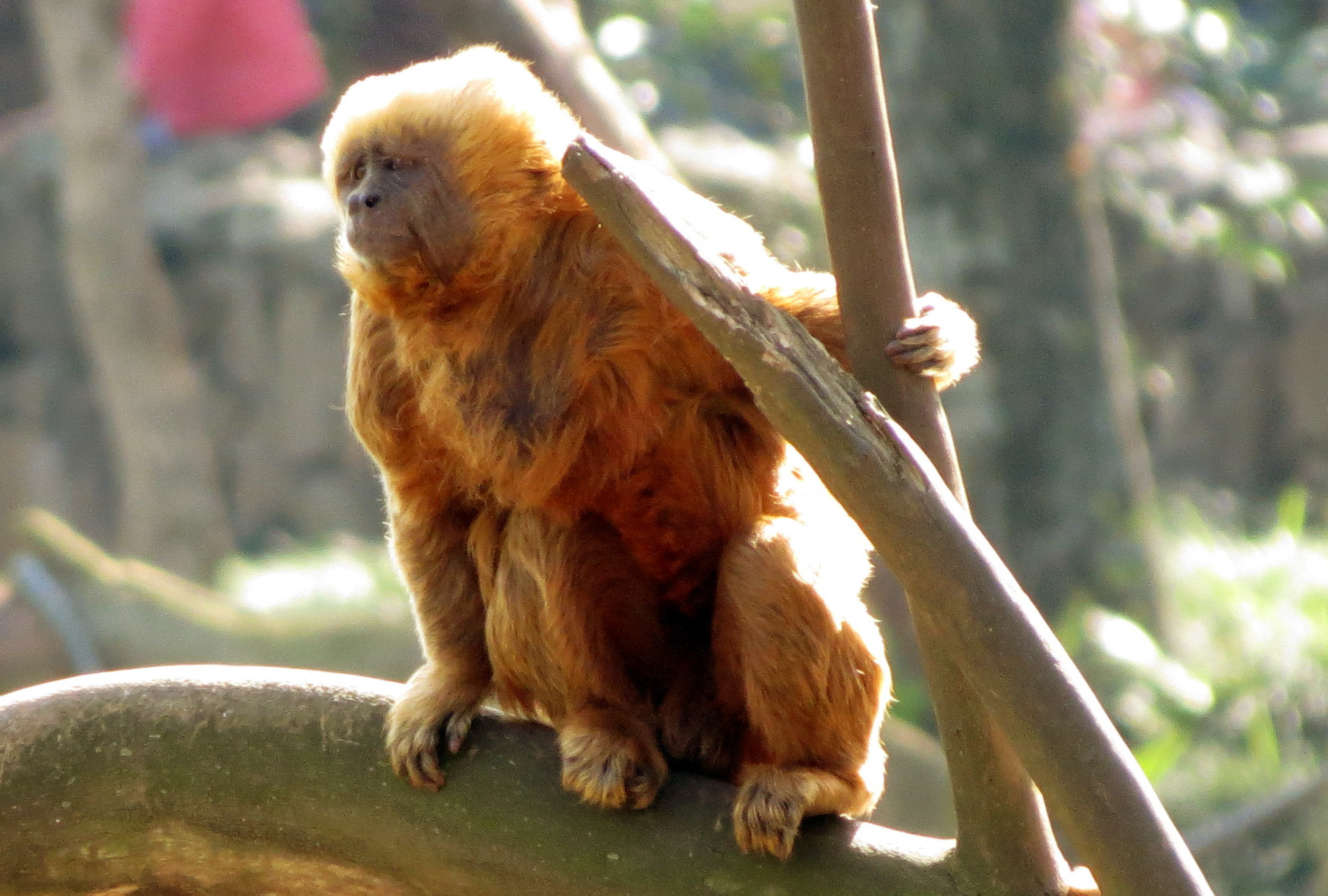 Male Sapajus flavius in São Paulo Zoo.